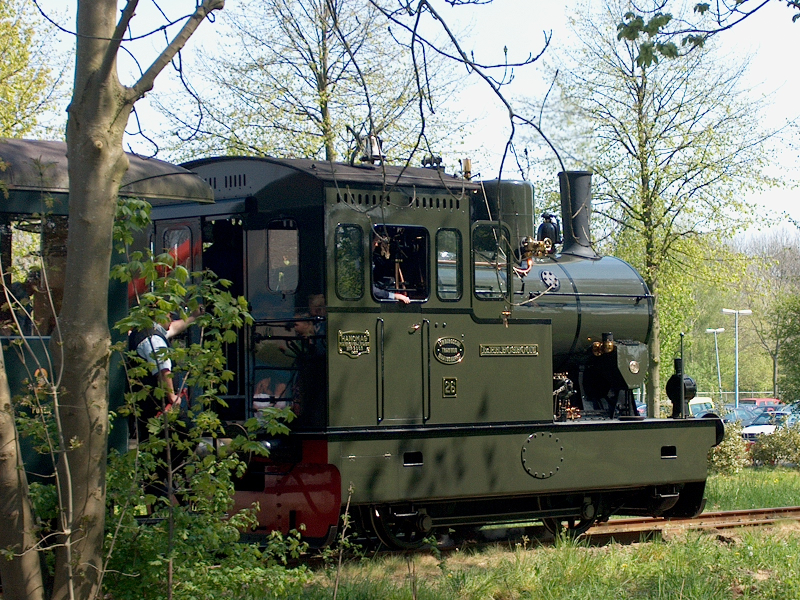 Museumstoomtram Hoorn - Medemblik, Loc 26, "Ir.P.H.Bosboom"